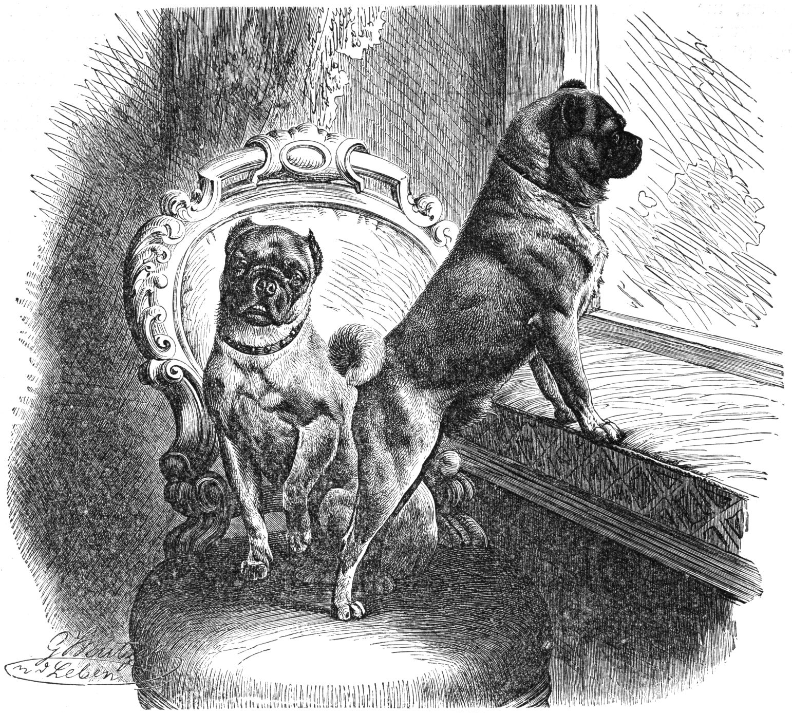 Original caption: "Mops. 1/6 natürlicher Größe." Translation (partly): "Mops. 1/6 natural size." Size: 5.1 x 4.6 in² (13.1 x 11.8 cm²) Source: Brehms Tierleben, Small Edition